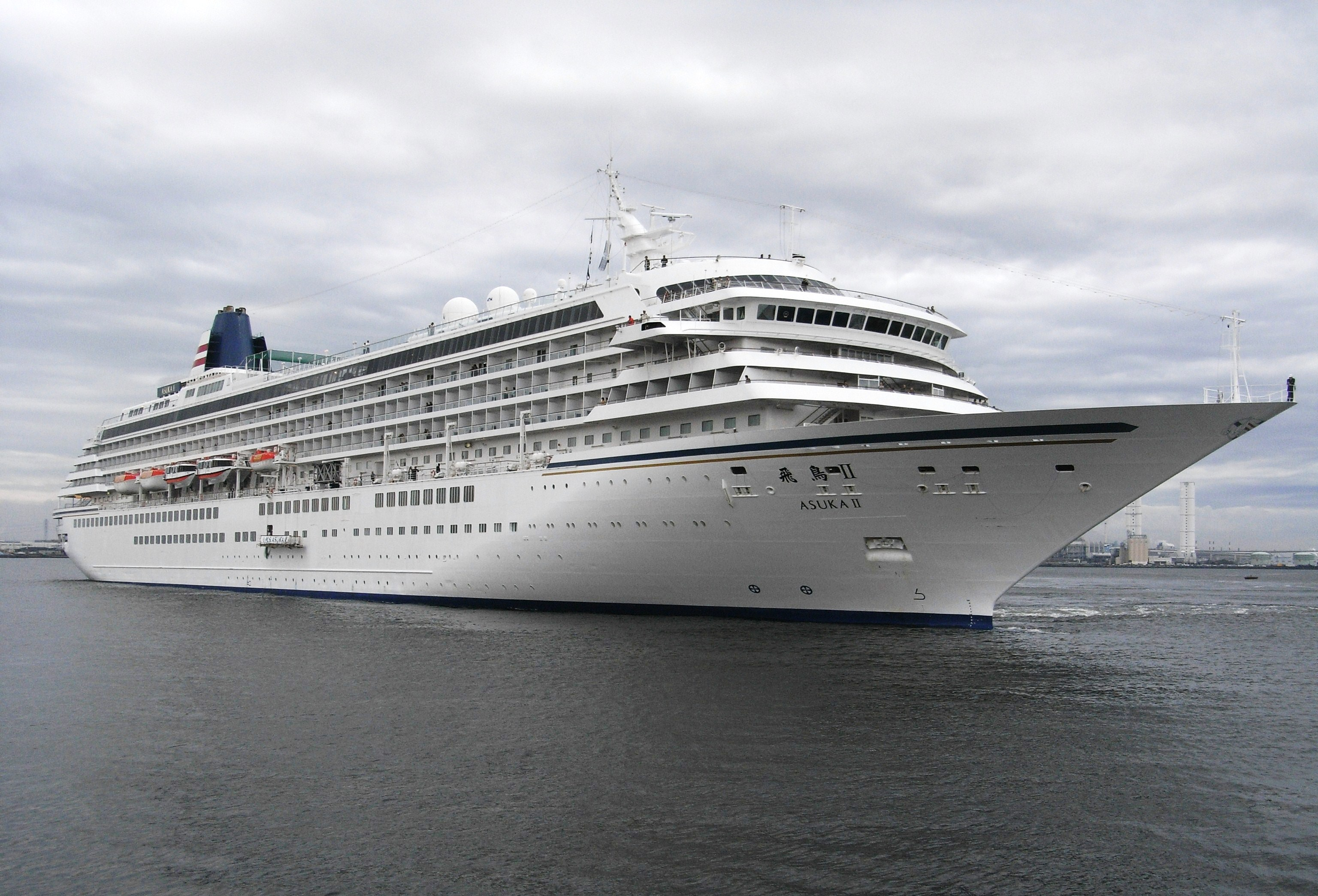 Cruise ship "Asuka II" (A former ship's name is "Crystal Harmony")